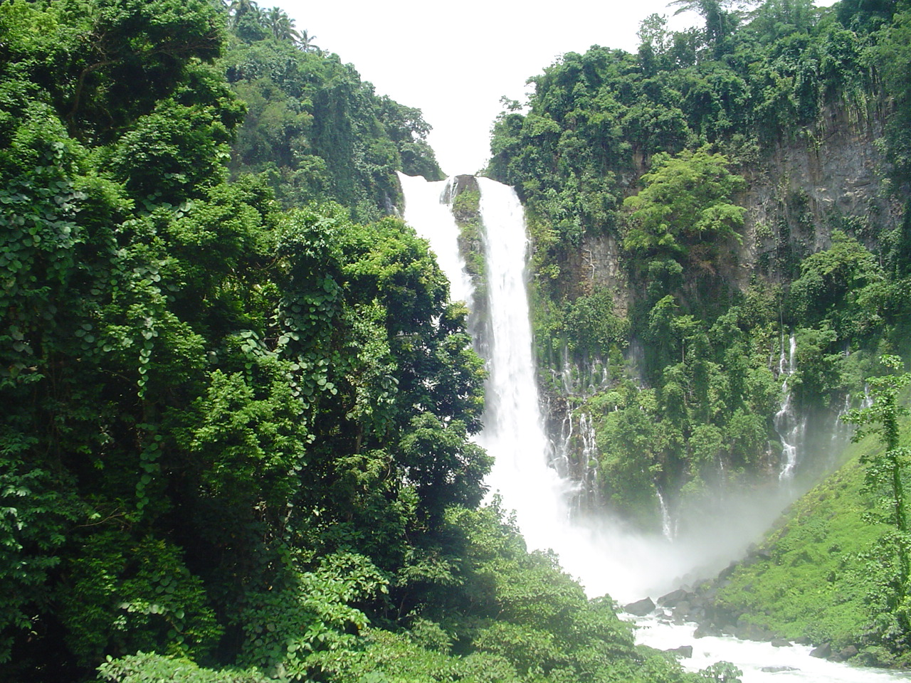 A view of María Cristina Falls